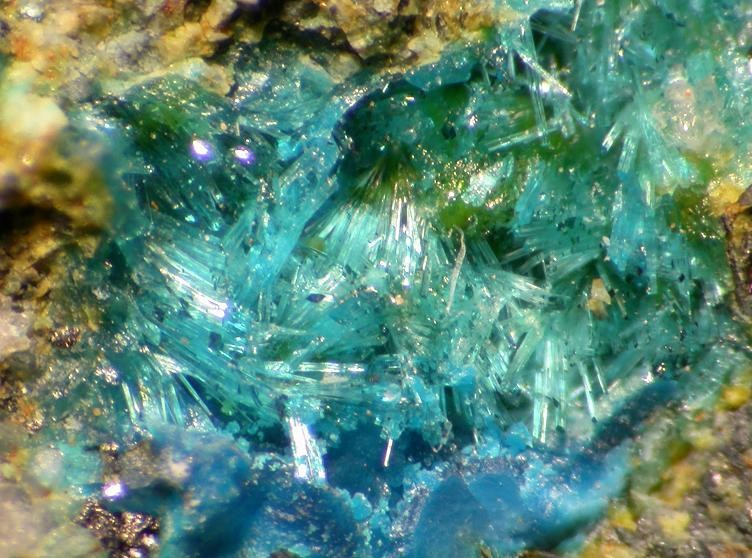 Guanacoite, Arhbarite Locality: El Guanaco Mine, Guanaco (Huanaco), Santa Catalina, Antofagasta Province, Antofagasta Region, Chile (Locality at ) Light blue acicular xls of Guanacoite together with some dark blue massive Arhbarite. Field of view 4 mm. Specimen and photo Leon Hupperichs.